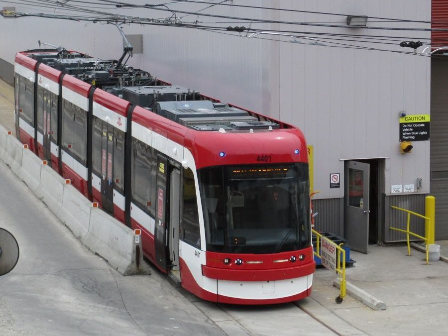 Closeup of 4401 beside the Harvey Shops at the TTC Hillcrest Complex in Toronto, showing roof equipment including both the raised pantograph in the middle and trolley pole at the rear